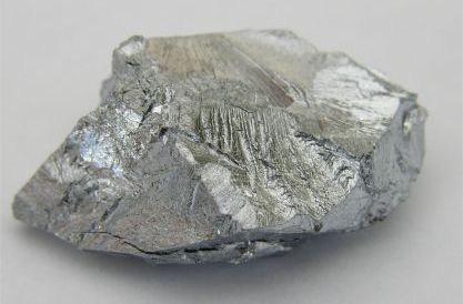 Chromium metal chunk